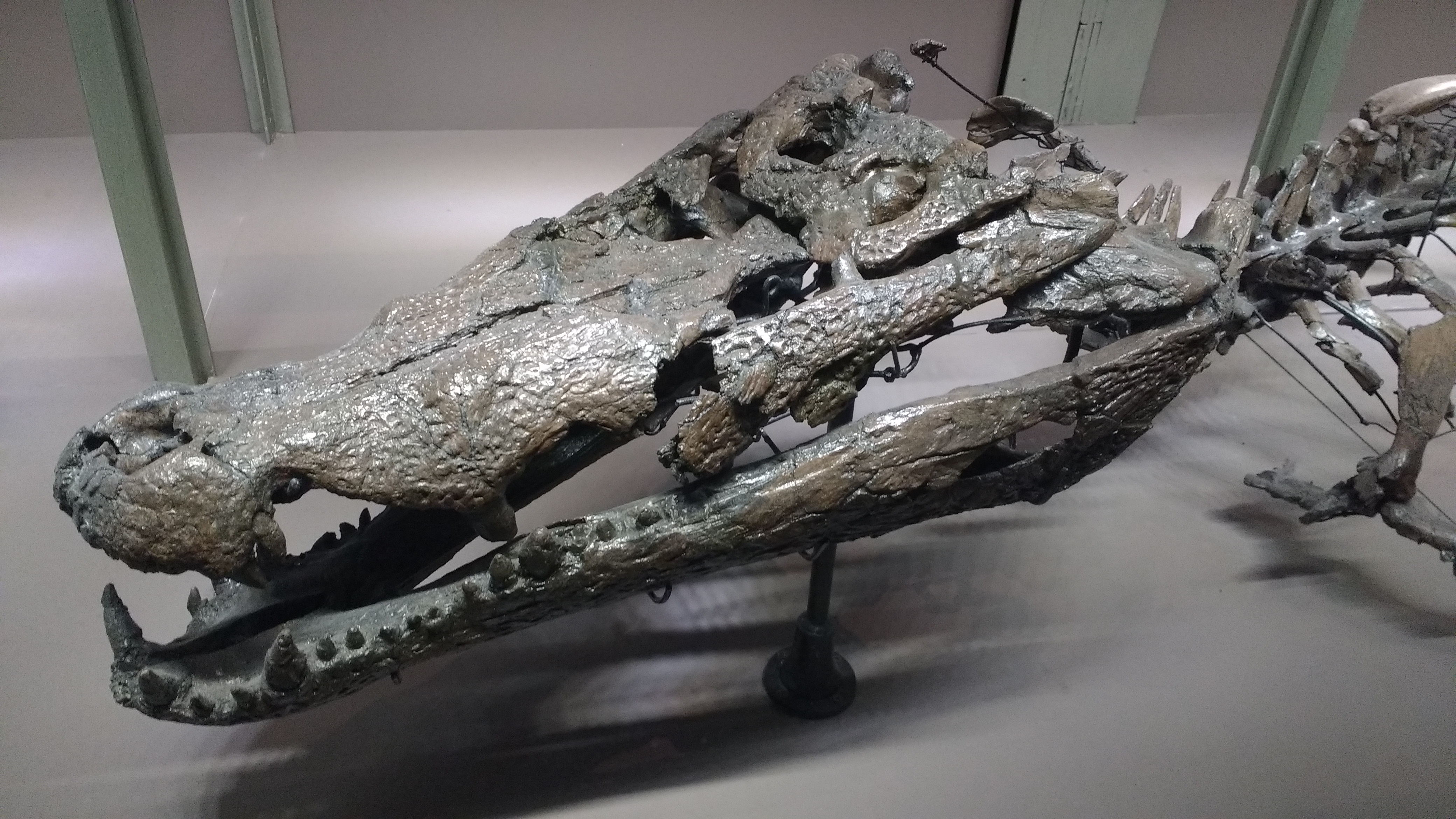 Asiatosuchus depressifrons in Royal Belgian Institute of Natural Sciences, in Brussels (Belgium).